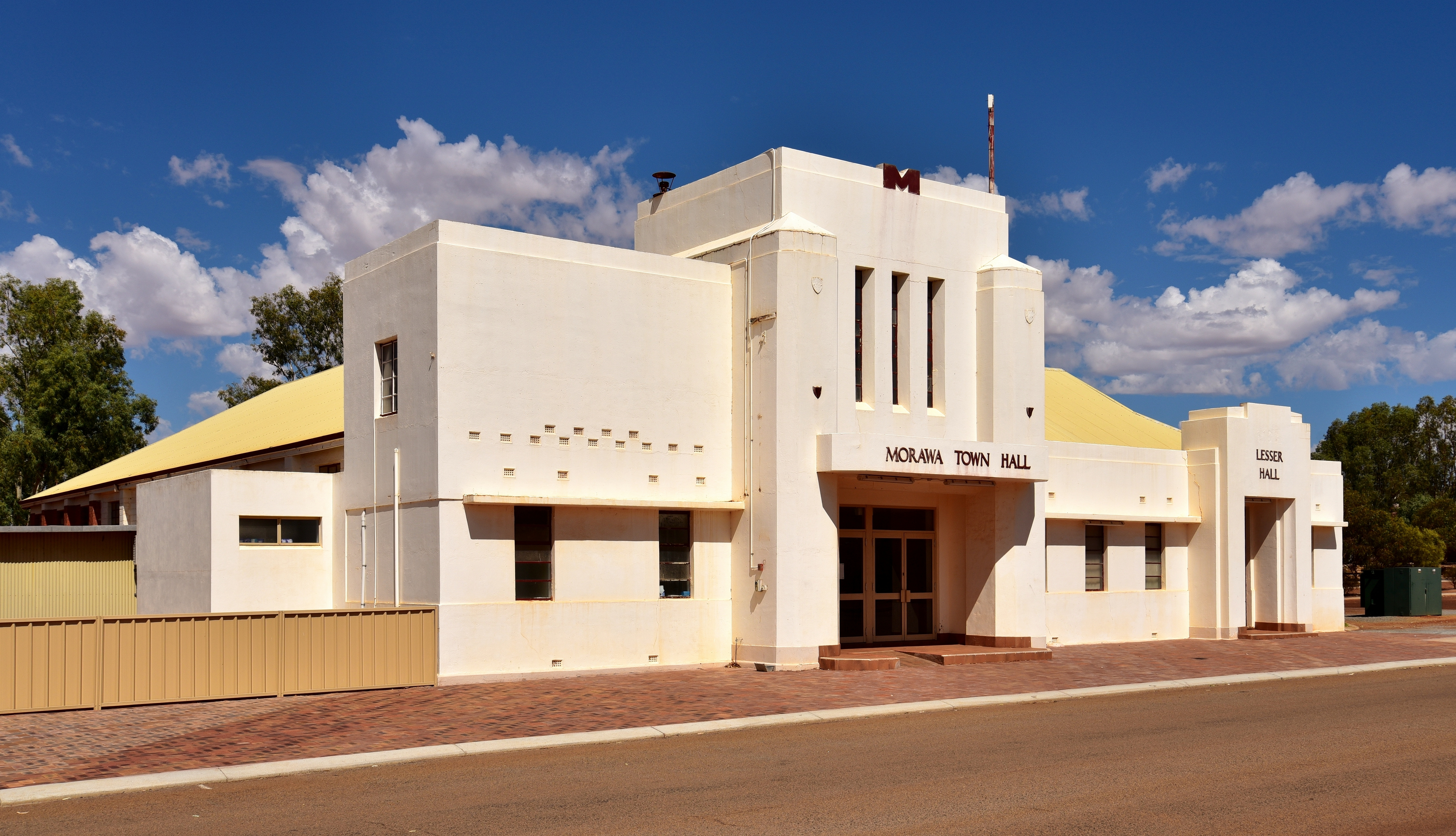 View of the Morawa Town Hall, Prater Street, Morawa, Western Australia